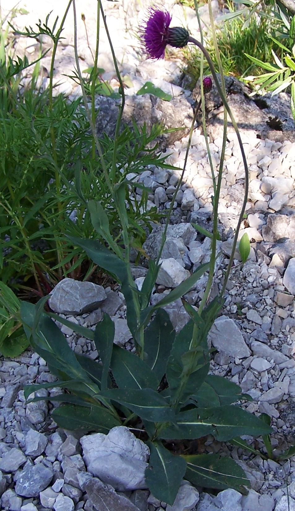 Carduus glaucus (pl. oset siny), habitat: Tatra Mountains, Dolina Jaworzynka